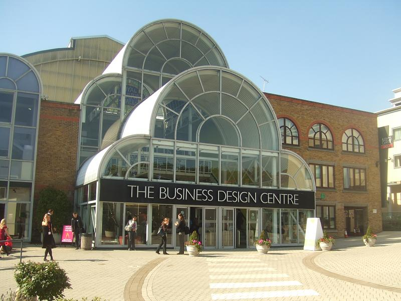 Business Design Centre exterior